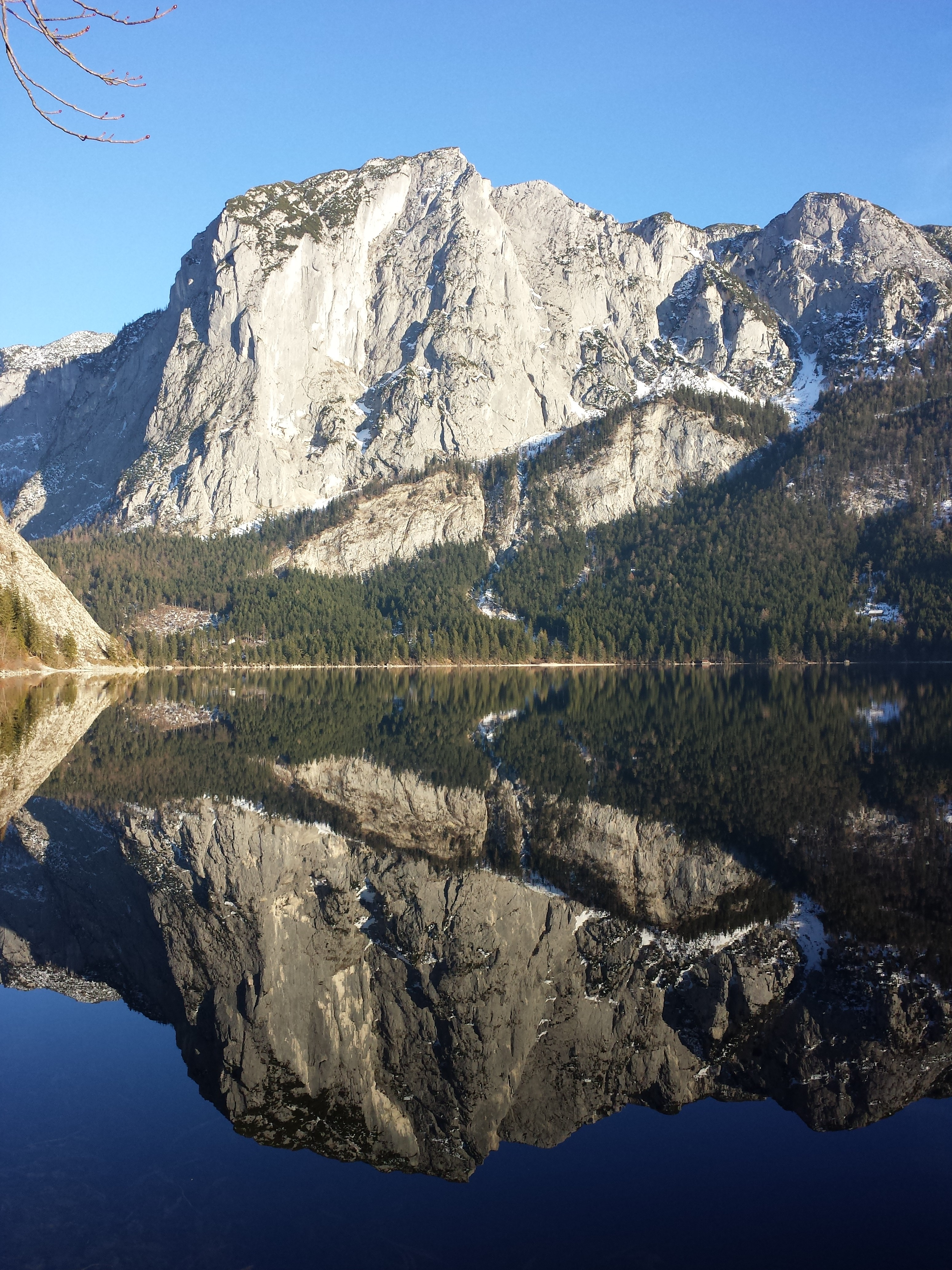 Altaussee lake and Trisselwand, district Liezen, Styria, Austria